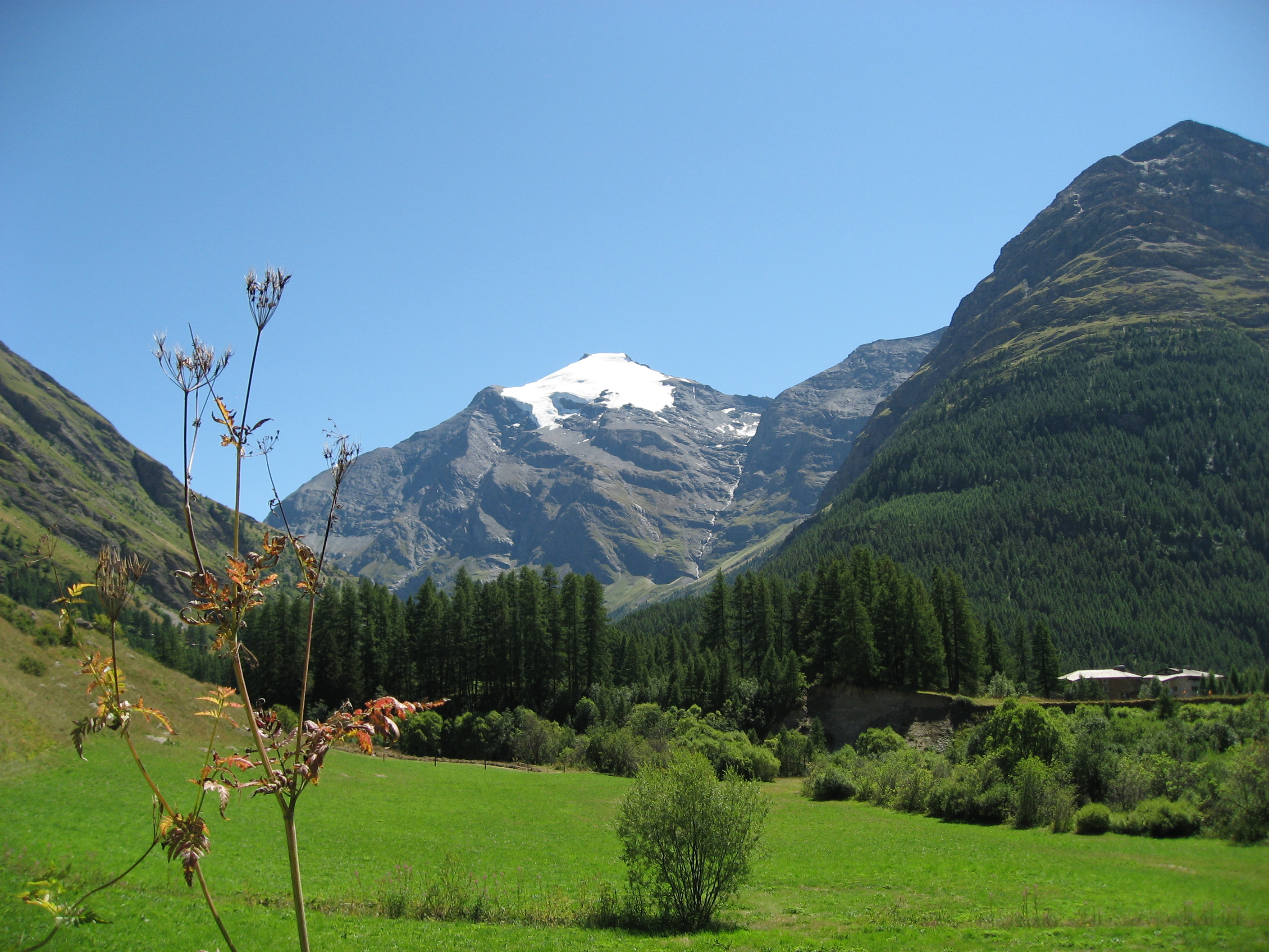 Pointe de Charbonnel on the left and Pointe de Tierce on the right, taken from the parking of le Villaron in the Vallée de la Maurienne Pointe de Charbonnel Position: Map: 45° 16' 51" N 7° 3' 20" E Pointe de Tierce Position: Map: 45° 18' 28" N 7° 0' 45" E Camera Position